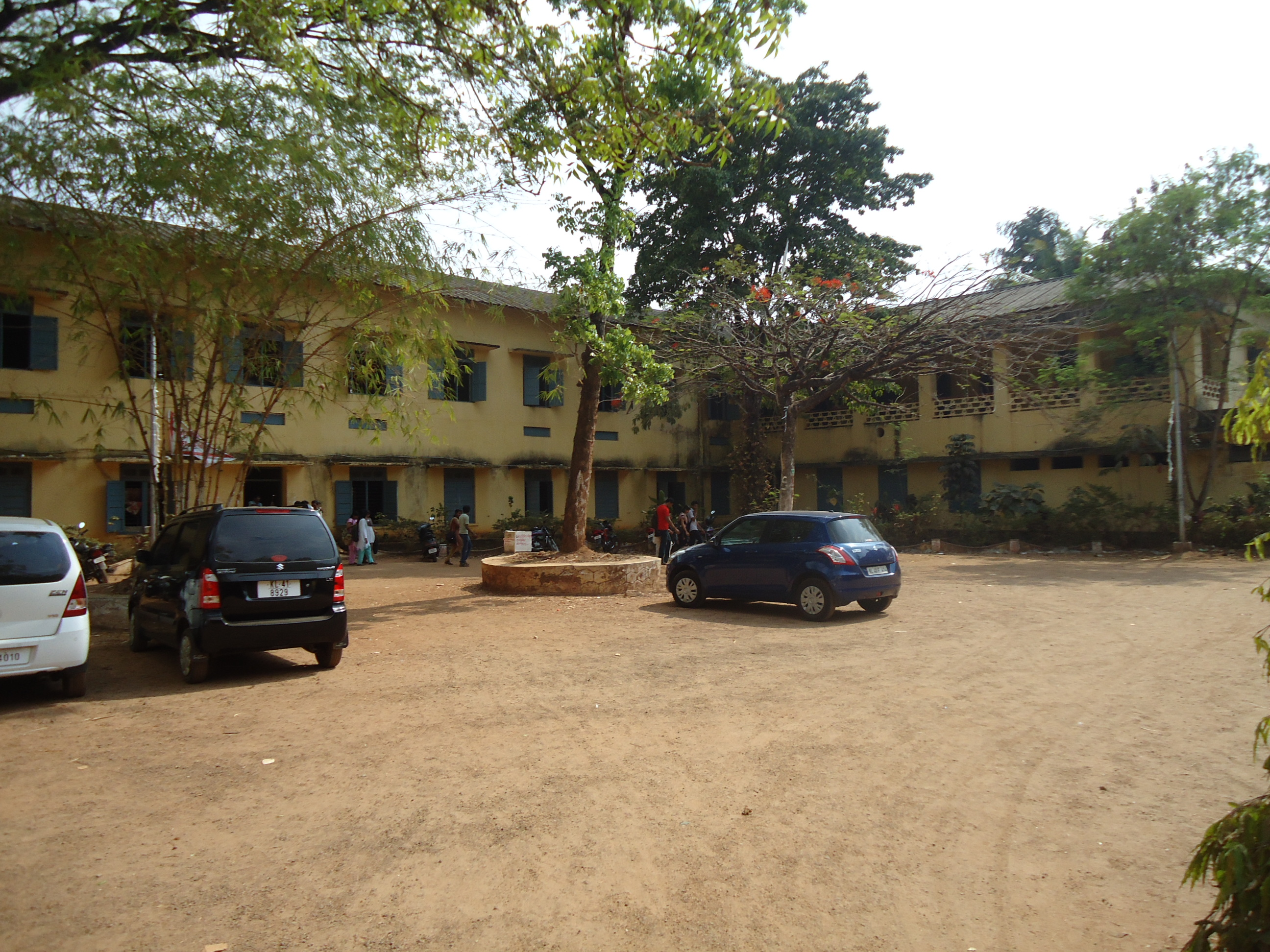 Sree Sankara College Campus